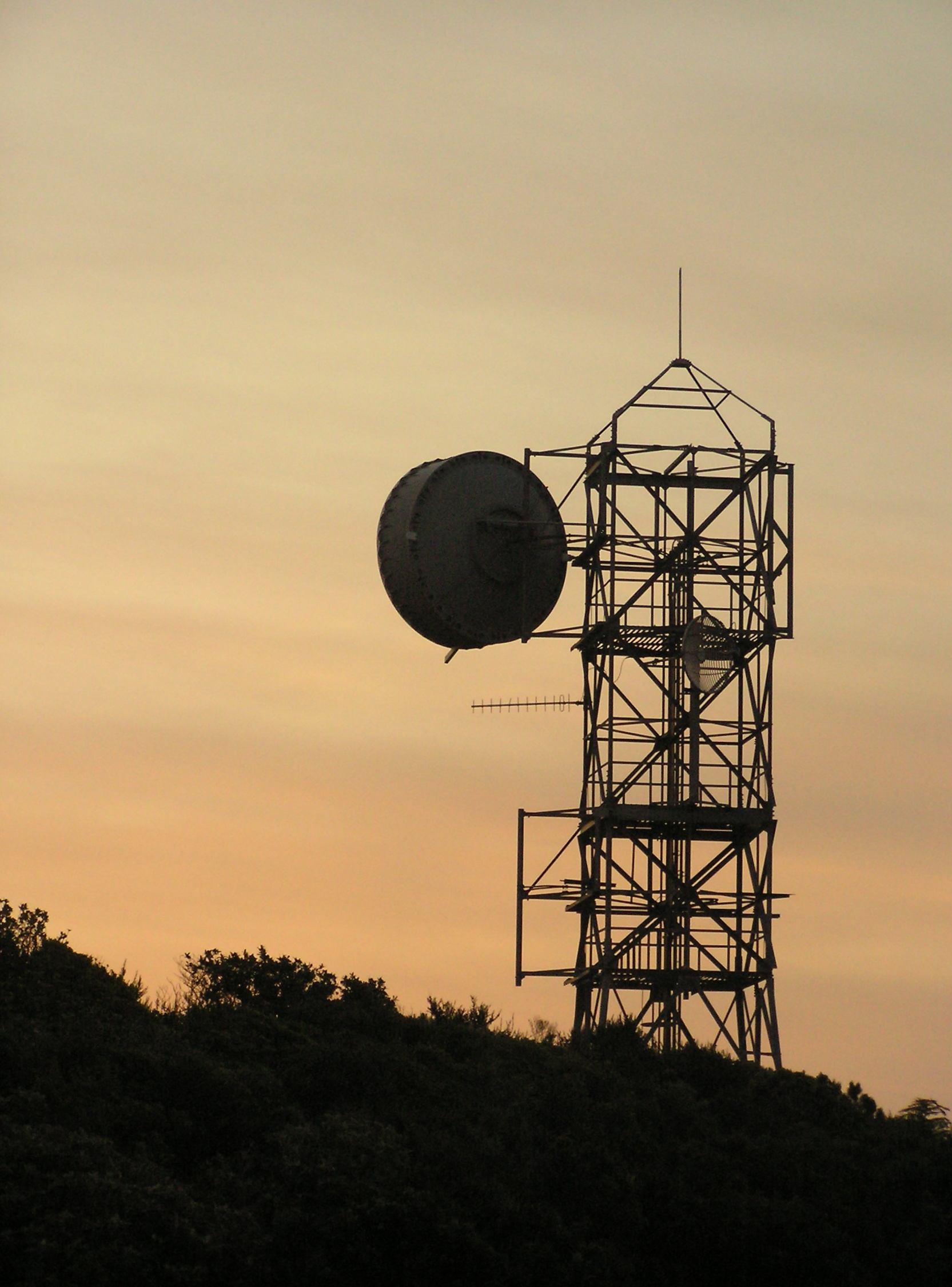 Microwave telecommunications tower, silhouette - Wrights Hill, Wellington New Zealand.